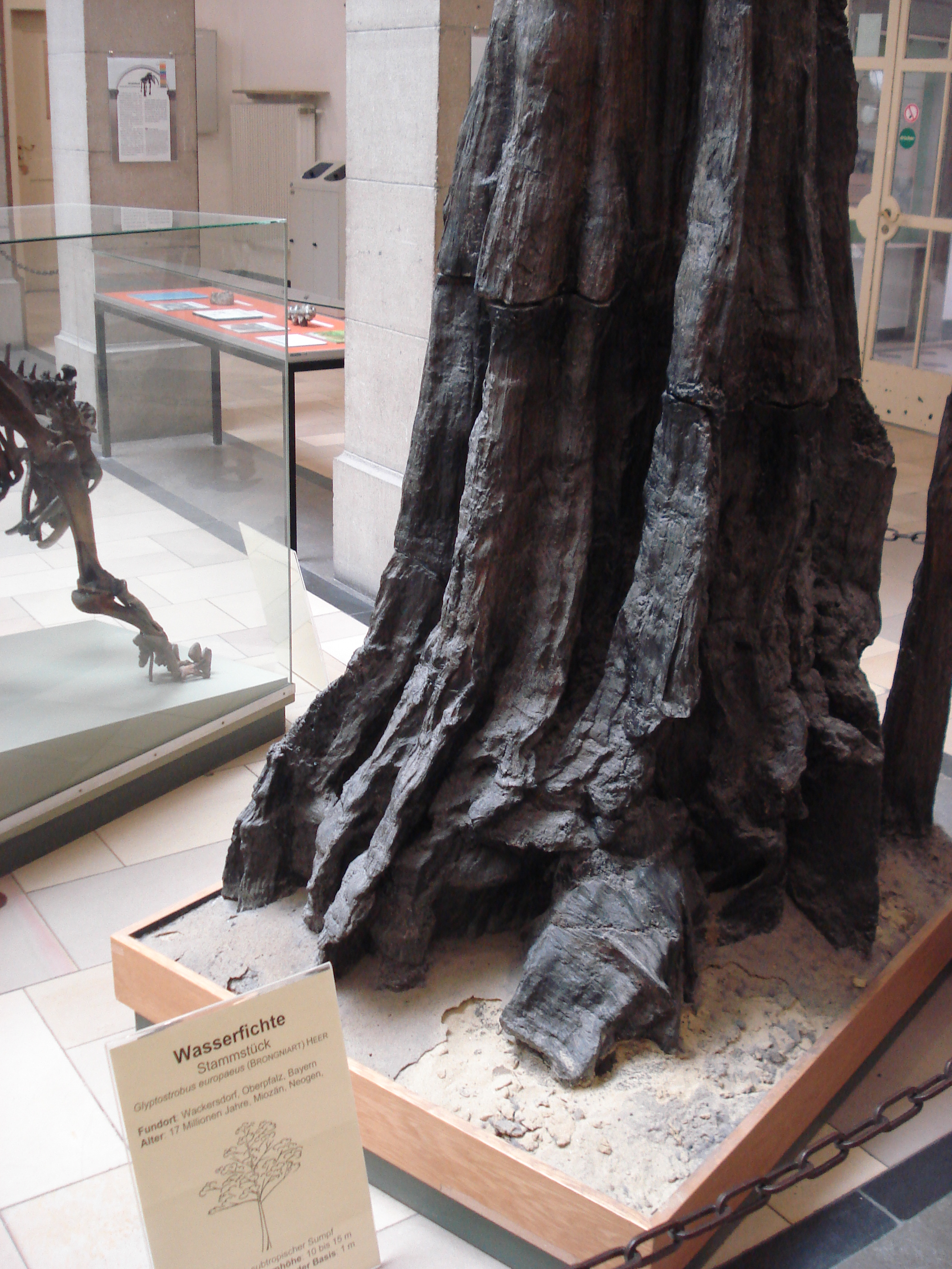 fossil of glyptostrobus europaeus